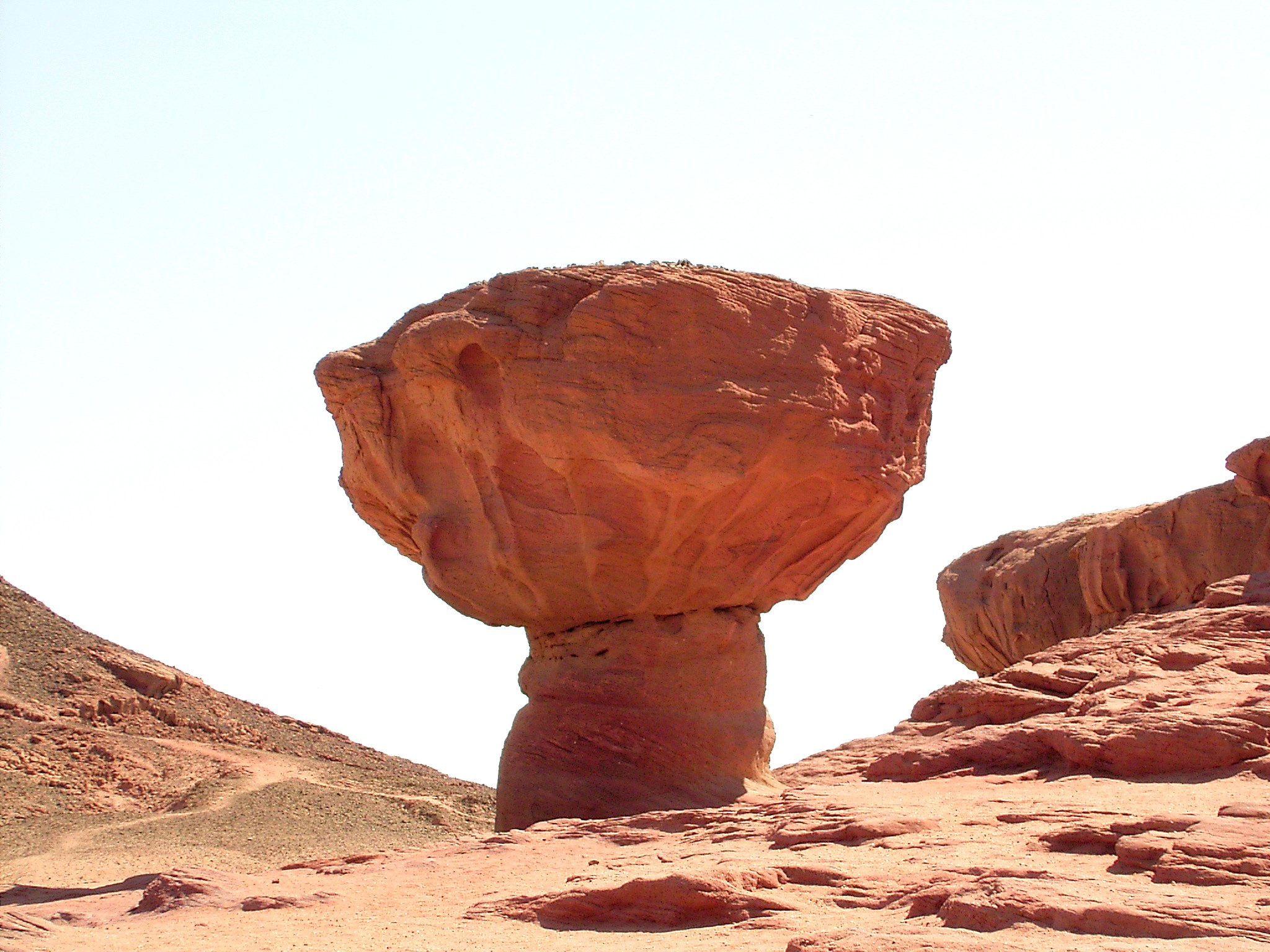 Musroom rock in Tinma